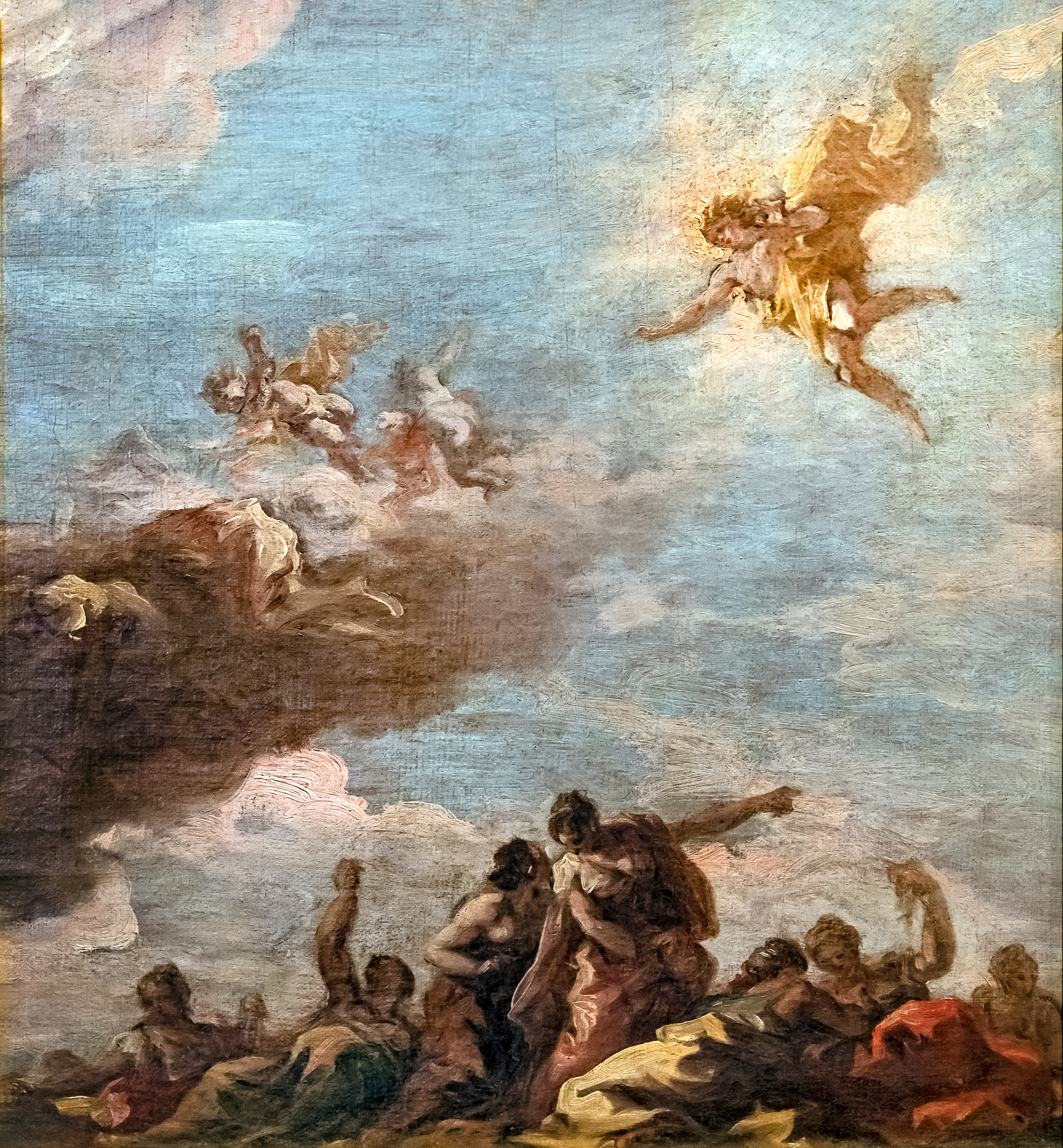 Sketch for a ceiling